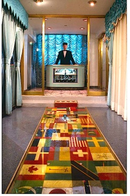 El Internacional Tapas Bar & Restaurant, art project led by Antoni Miralda and Montse Guillén during 1980s in TriBeCa, NY